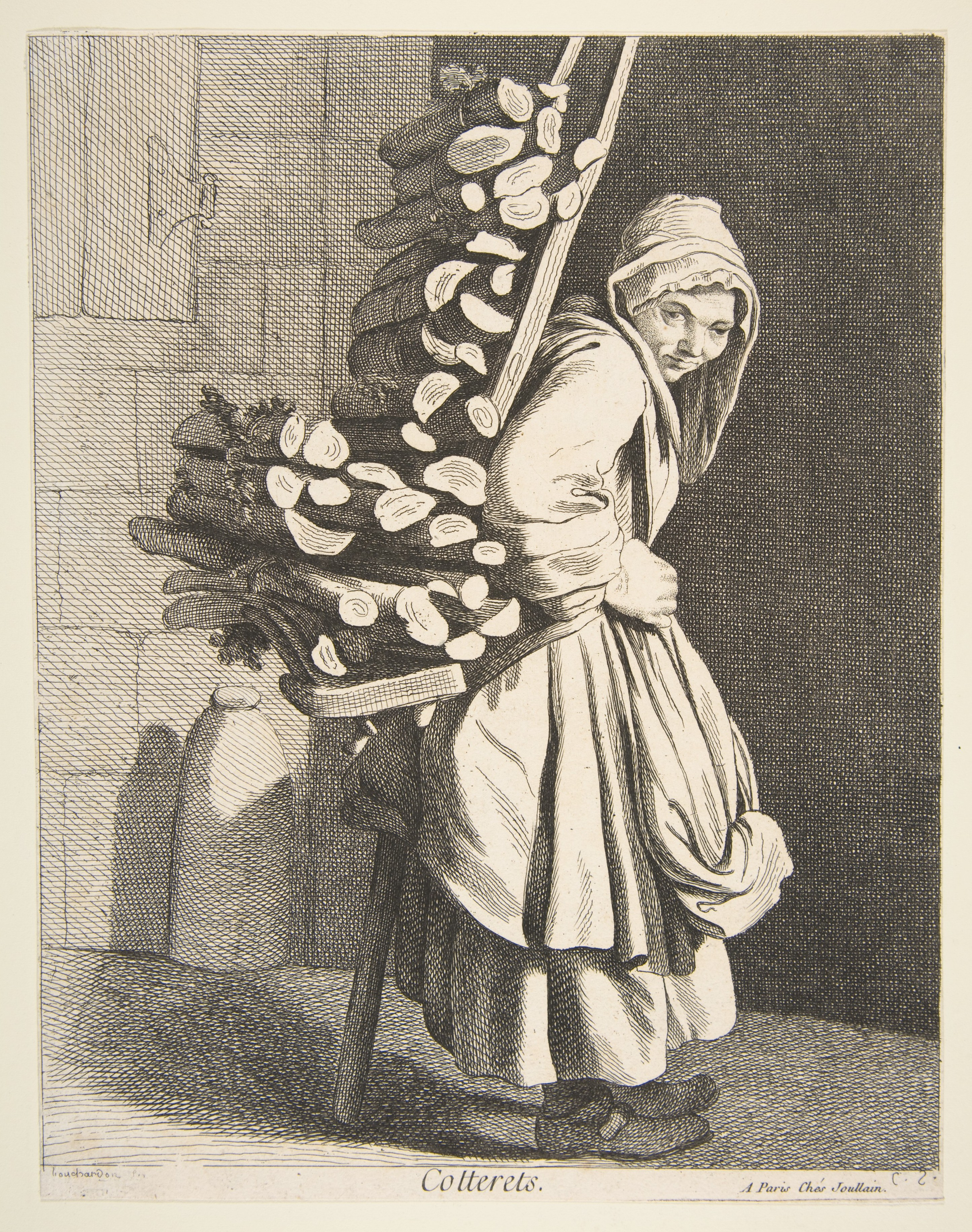 Bundled Firewood Seller. Woman standing full-length, turned to the right, carrying firewood on her back.